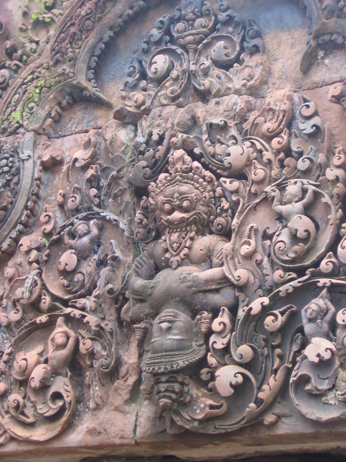 Narasimba Clawing Hiranyakasipu.